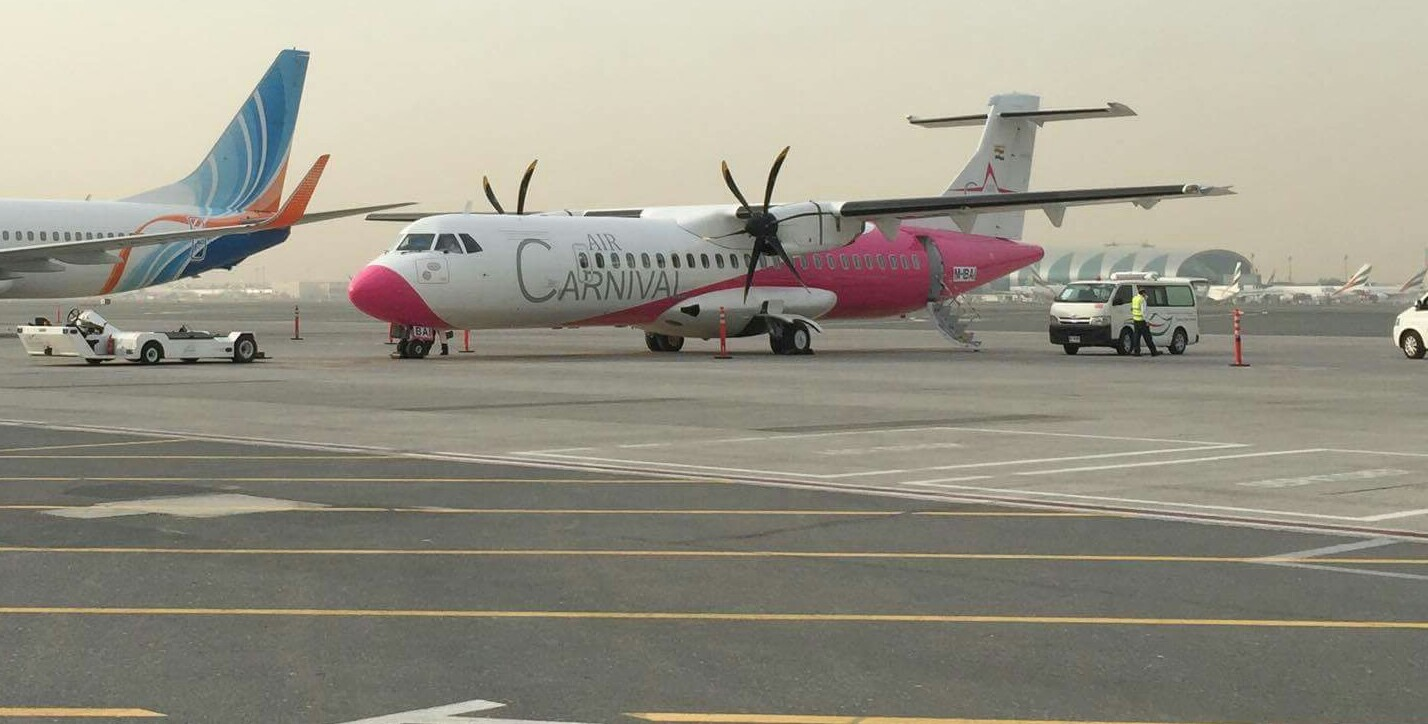 Air Carnival ATR 72-500 registered M-IBAI at Dubai International Airport/DXB awaiting delivery. The aircraft was later registered as VT-CMA